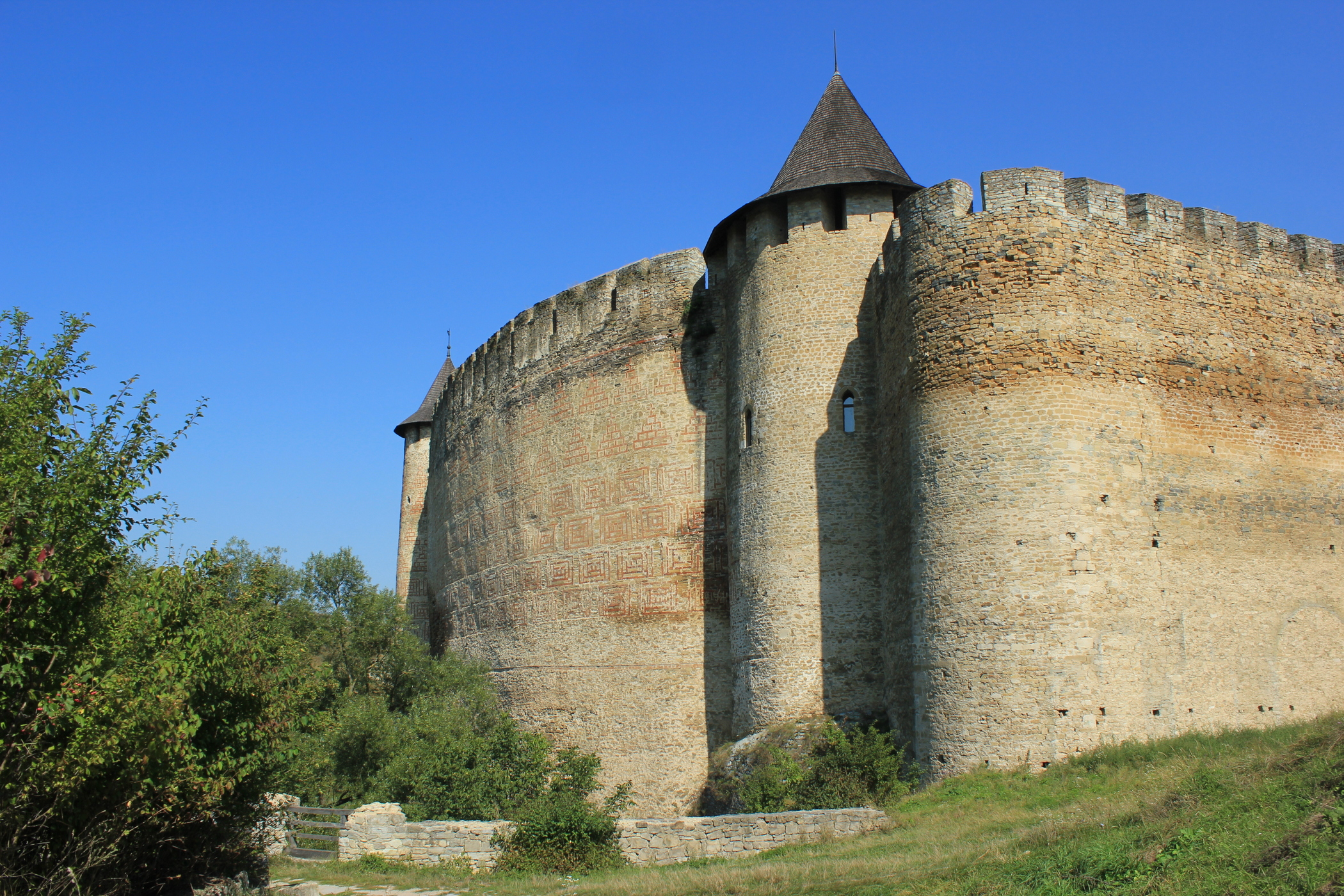 Khotyn Fortress in south-western Ukraine.